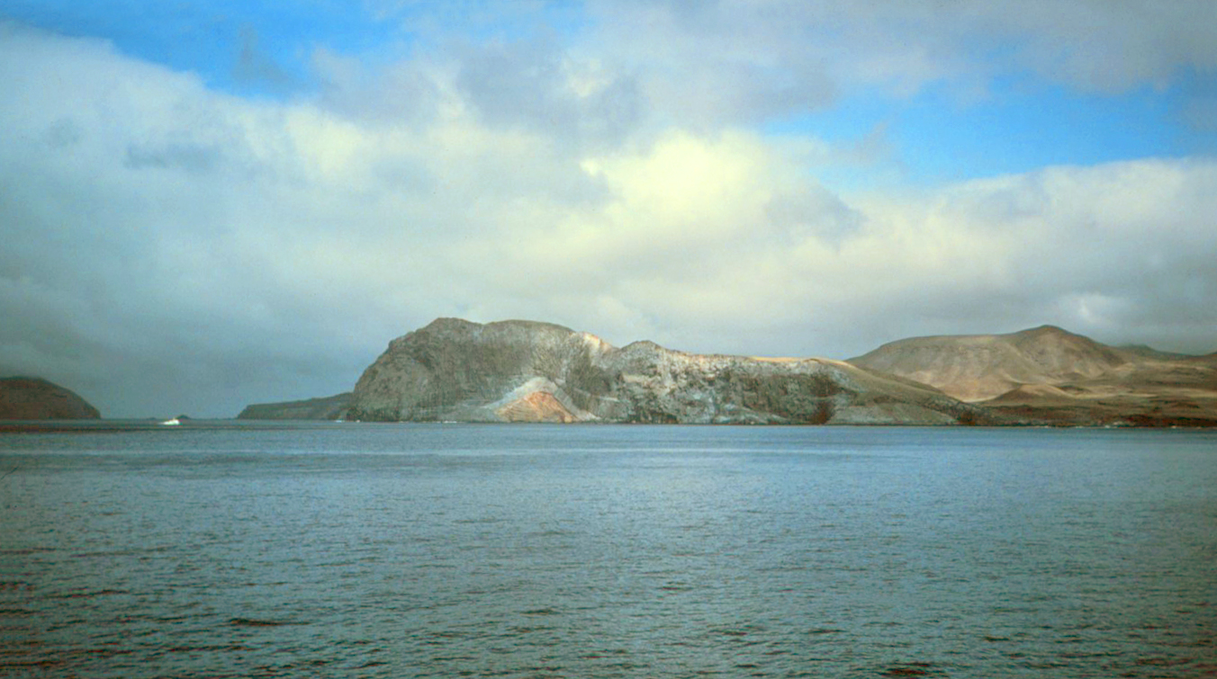 Southeast Coast of Guadelupe Island, Mexico